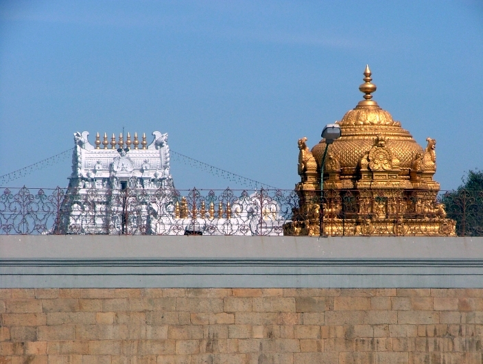 Gopurams of Tirumala Venkateswara Temple. The Gold plated gopuram is situated above the sanctum sactorum. The smaller gopuram is the inner gopuram and is situated next to the Dwajastambam and houses the silver door. The larger gopuram is the outer gopuram and is the entrance to the temple.